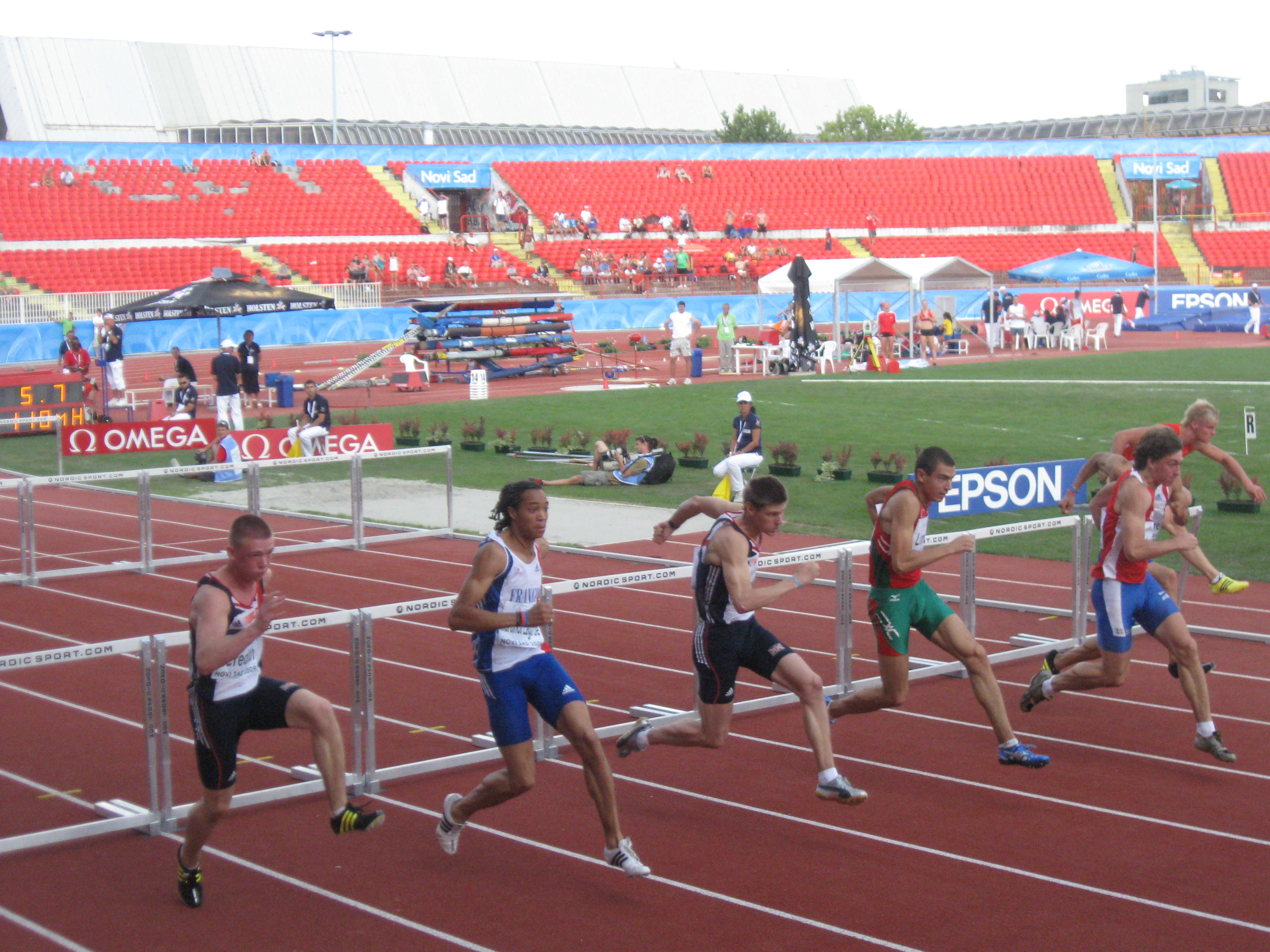 110 m hurdles at the 2009 European Athletics Junior Championships in Novi Sad.